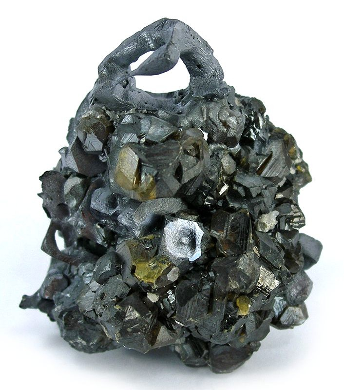 Galena, Sphalerite Locality: Septemvri mine (Deveti Septemvri mine), Madan ore field, Rhodope Mts, Smolyan Oblast, Bulgaria (Locality at ) Size: 4.4 x 3.9 x 2.2 cm. One superb crystal of skeletal, battleship gray, galena, measuring 1.3 cm in length, is aesthetically perched on other galena crystals exhibiting various stages of etching. For added effect, scattered on the galena are several crystals of resinous, translucent yellow crystals of sphalerite to .6 cm across. The etching, and color contrast is super!